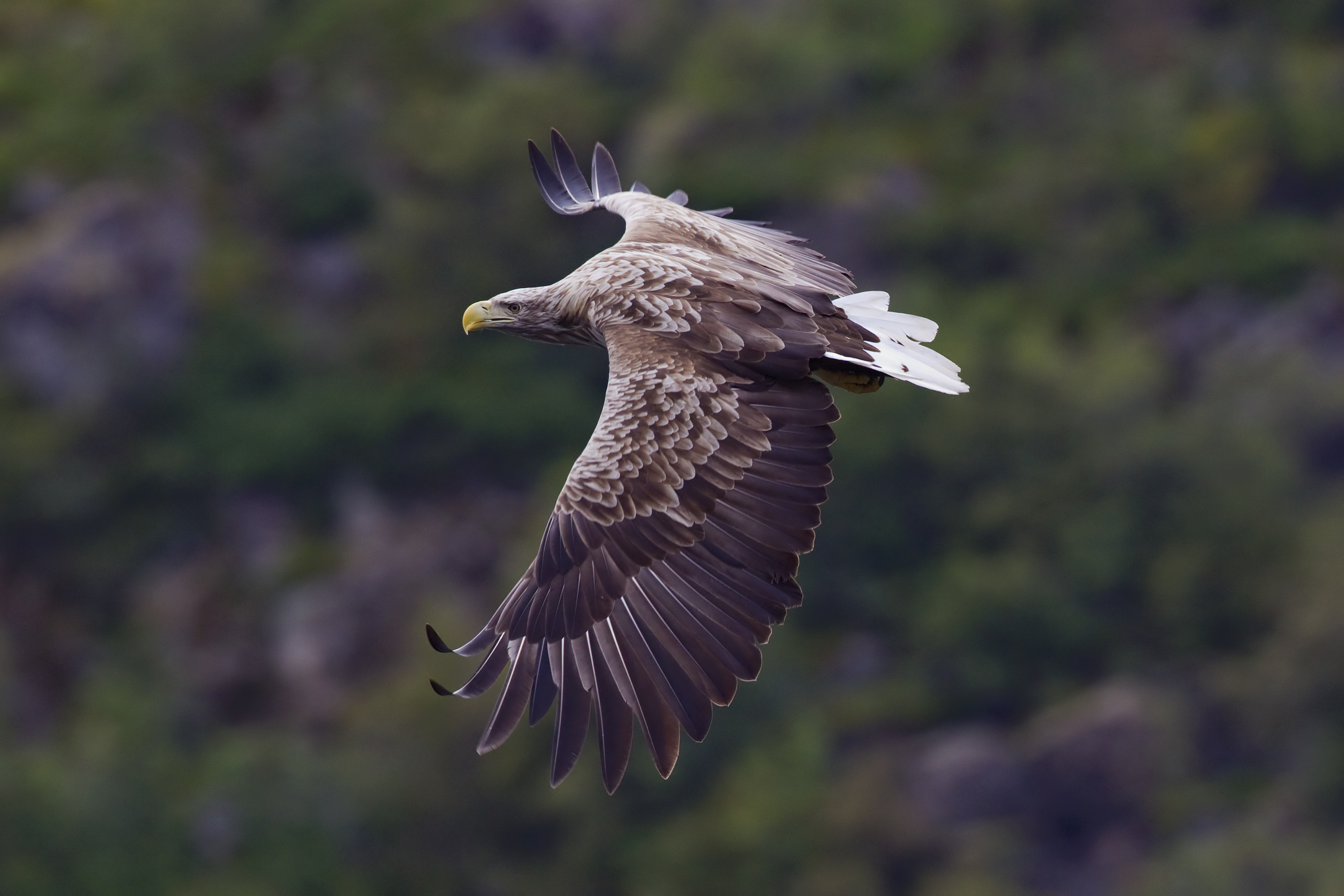 White-tailed eagle in Svolvaer, Norway